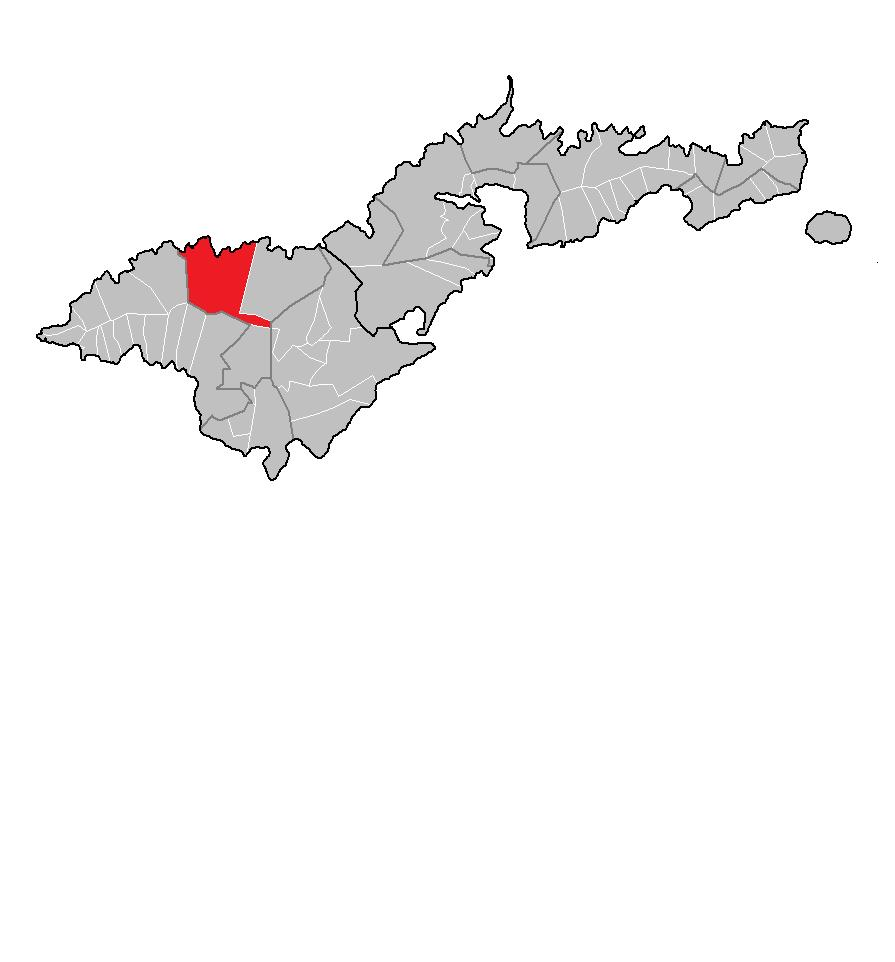 Locator map of Aoloau village